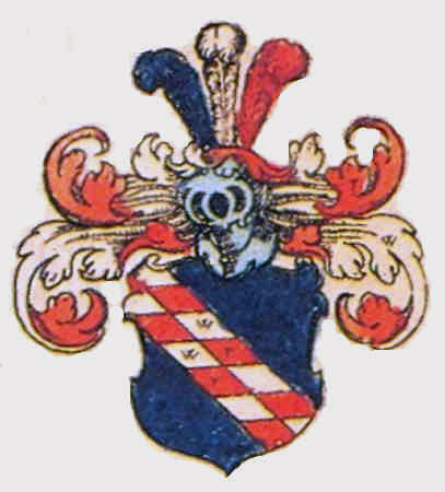 Coat of arms of the family Wiese